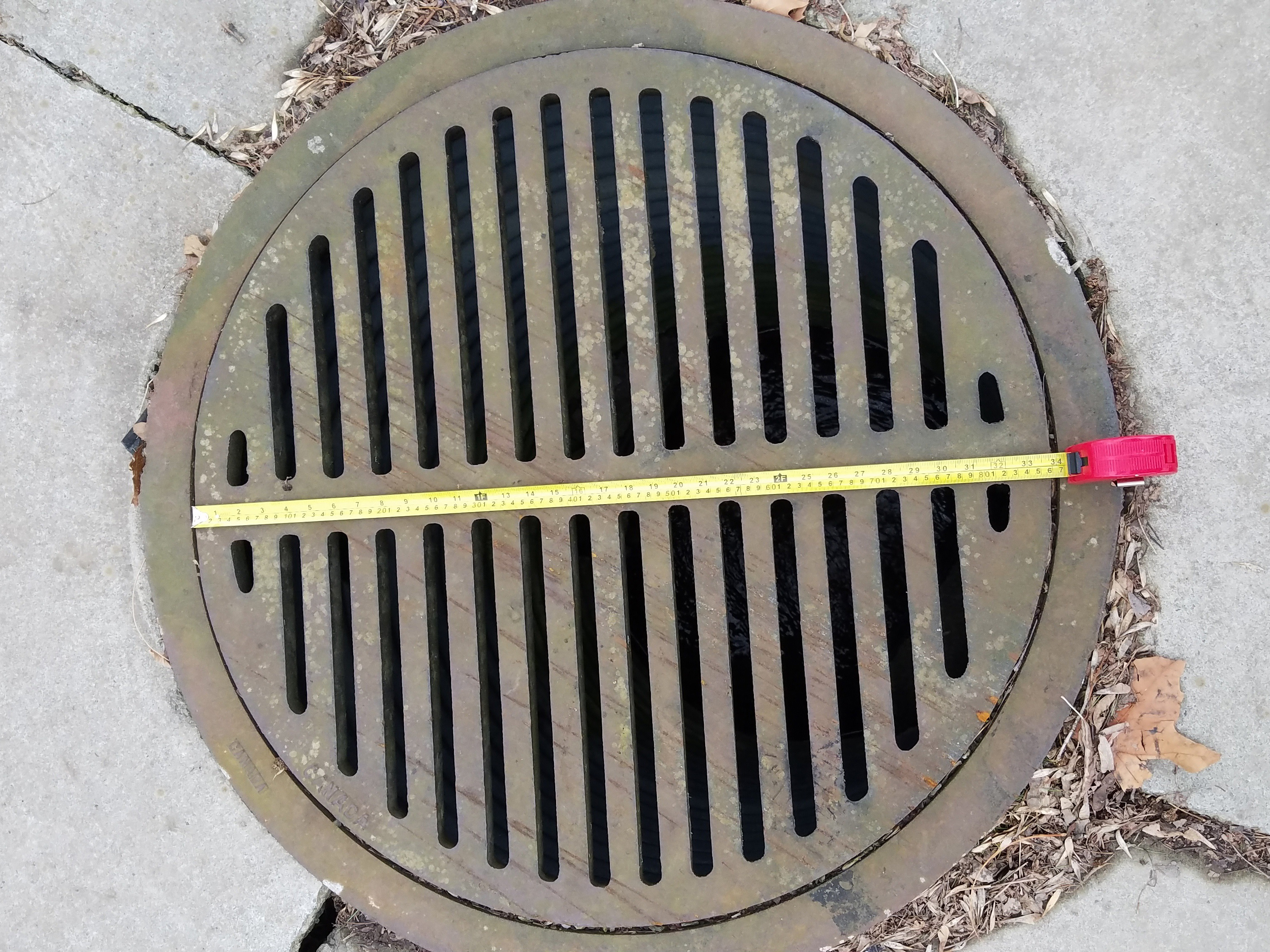 Manhole Cover Average Size Are 34 Inches Round!!